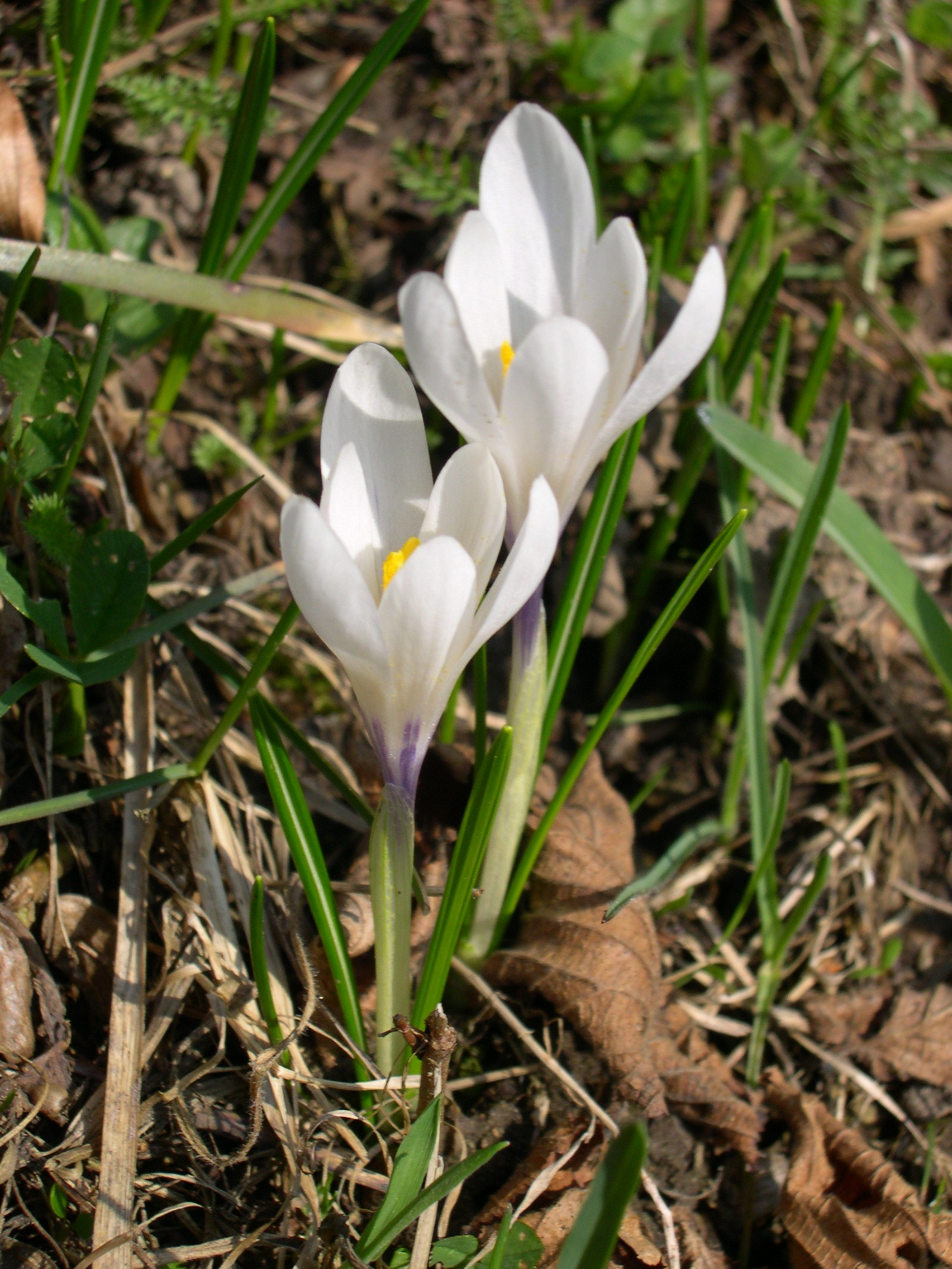 A growing wild plant